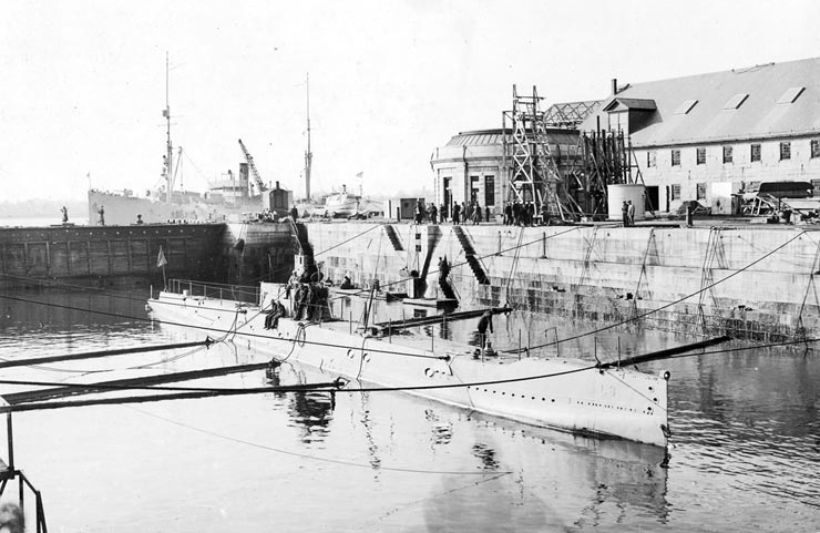 USS L-8 (Submarine # 48) In dry dock at the Portsmouth Navy Yard, Kittery, Maine, in 1917. USS Leonidas (1898-1922) is in the left background, with a gun installed on her forecastle. Round building in the right center is the dry dock pumphouse. Building 7 is in the right background.